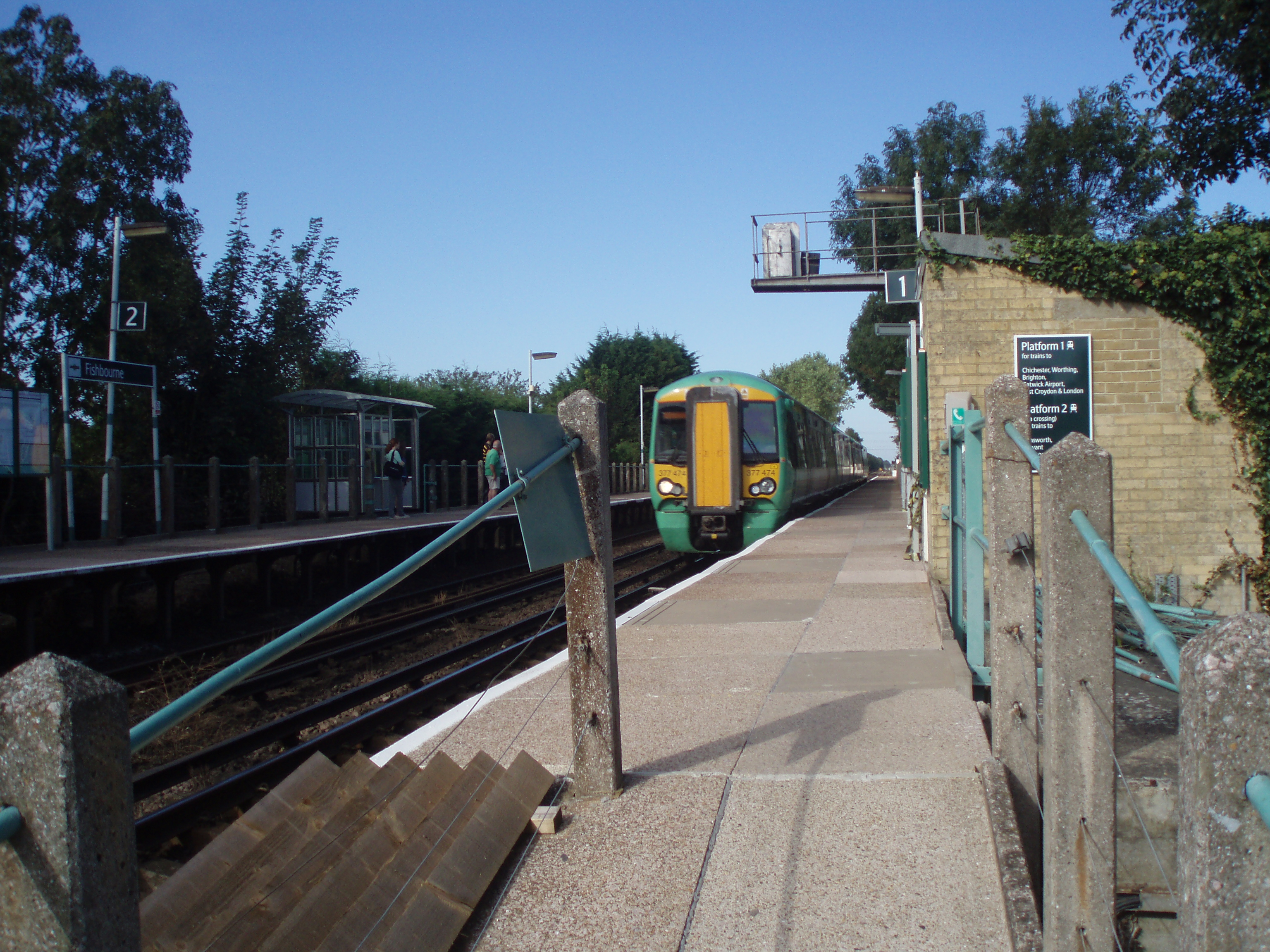 Photo taken from 15th September 2007